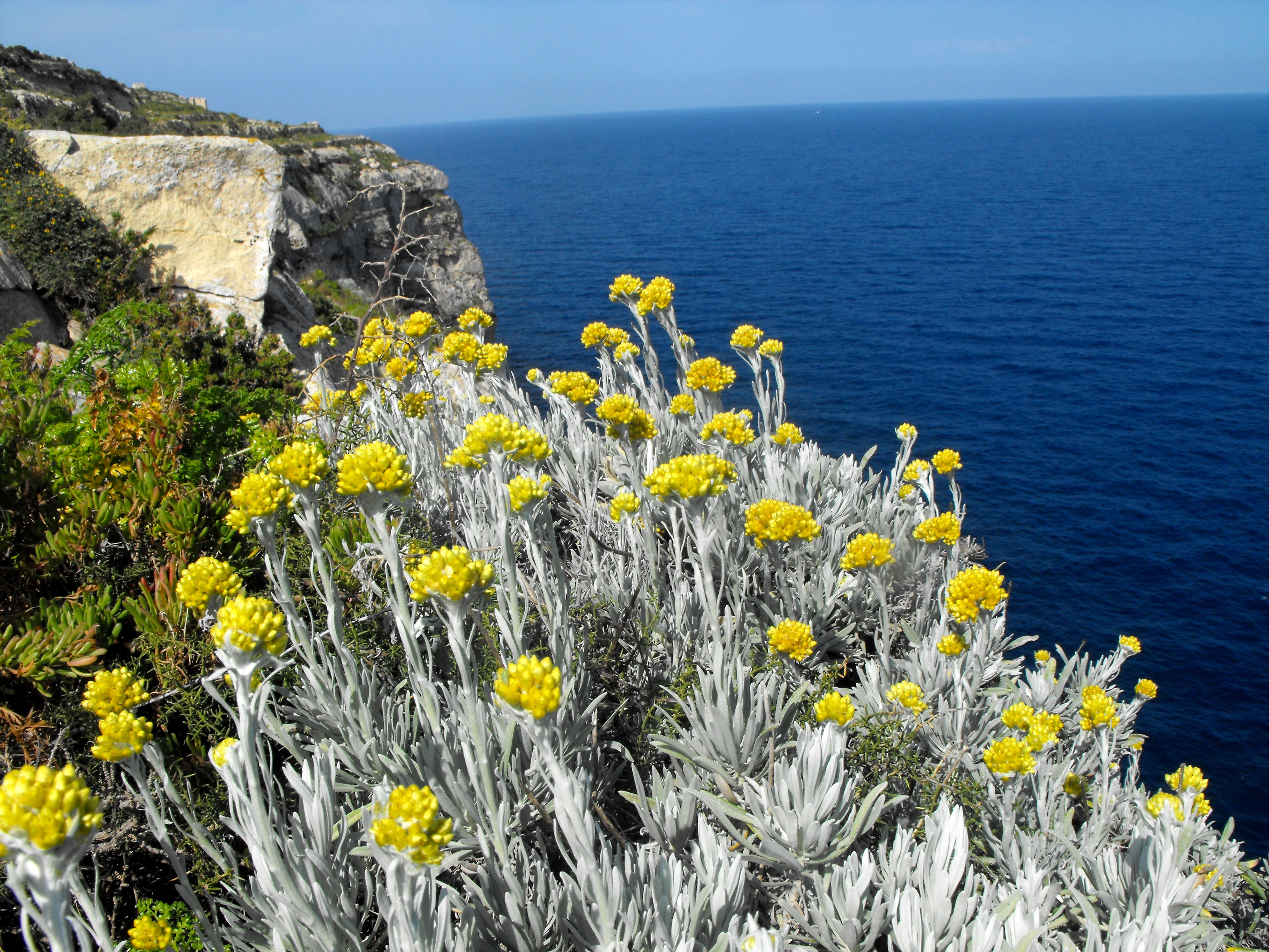 According to IUCN/SSC specialists this is one of the most endangered species of island floras in the Mediterranean area.